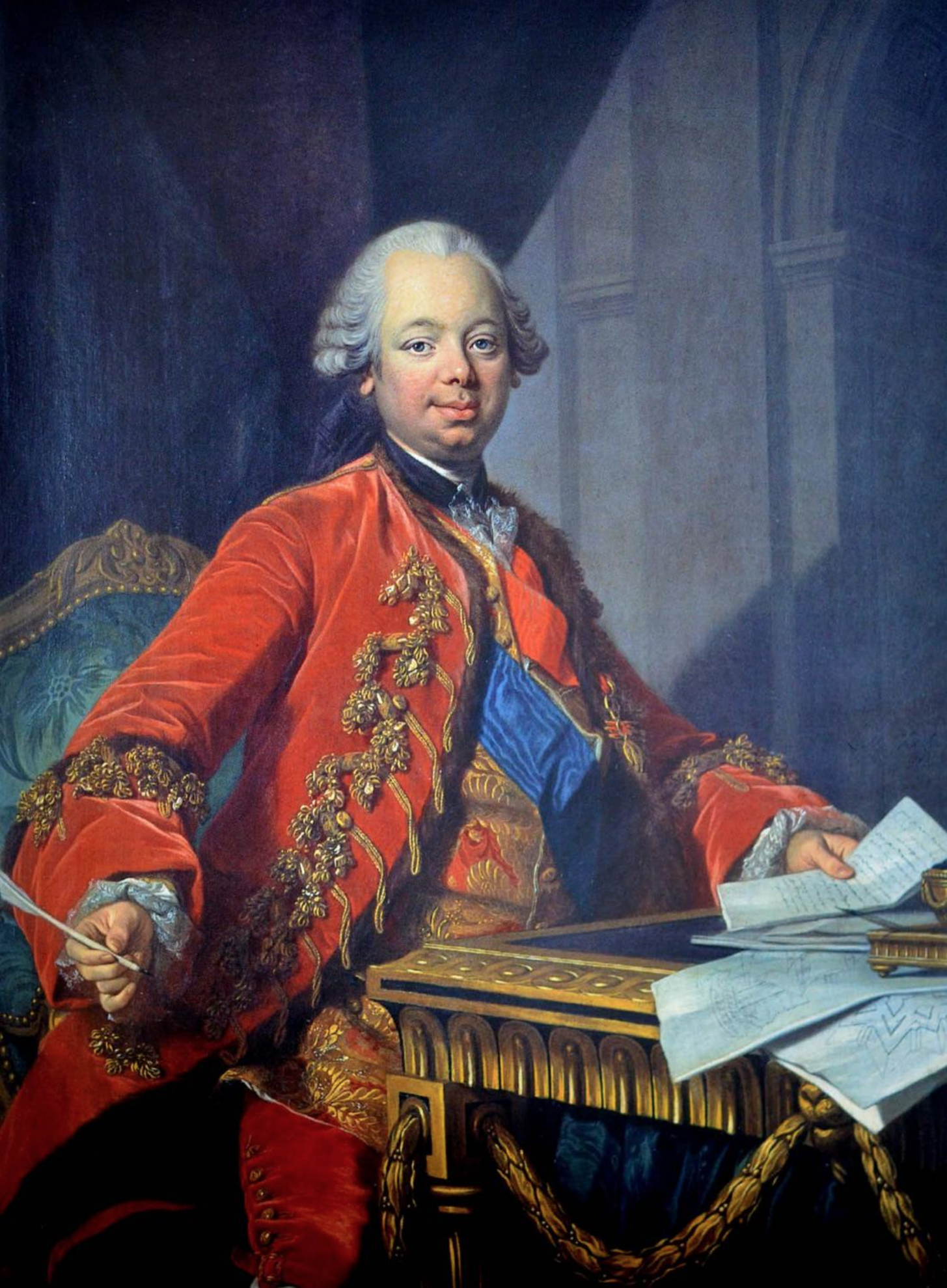 Portrait of Étienne François, duc de Choiseul (private collection)